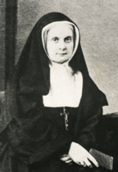 Old photograph of Marie-Thérèse de Soubiran, foundress of Society of Mary the Helper